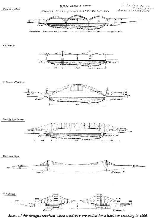 Sketches of designs submitted for the Sydney Harbour Bridge, Sydney, New South Wales, Australia. "Some of the designs received when tenders were called for a harbour crossing in 1900." None of the submissions were considered suitable, and another tendering process was not conducted until 1922.